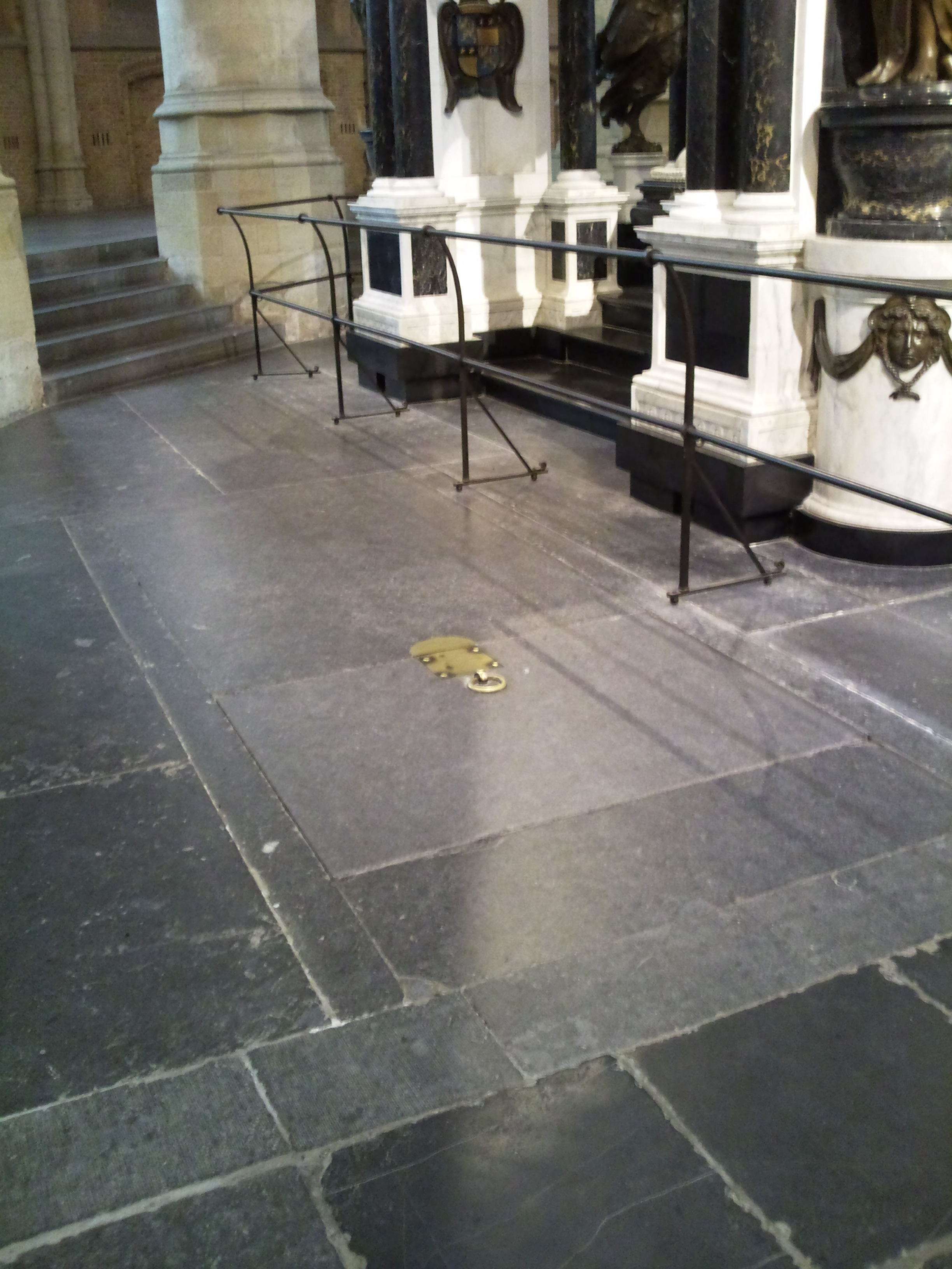 Second entrance of the Crypt of the Dutch Royal Family, Nieuwe Kerk, Delft, The Netherlands